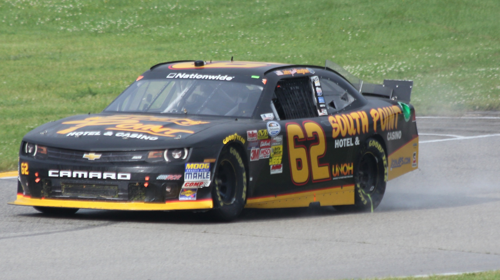 The drivers side of Brendan Gaughan Nationwide car during the 2014 Gardner Denver 200 at Road America. Taken racing up the hill between turns 5 and 6 in the rain.